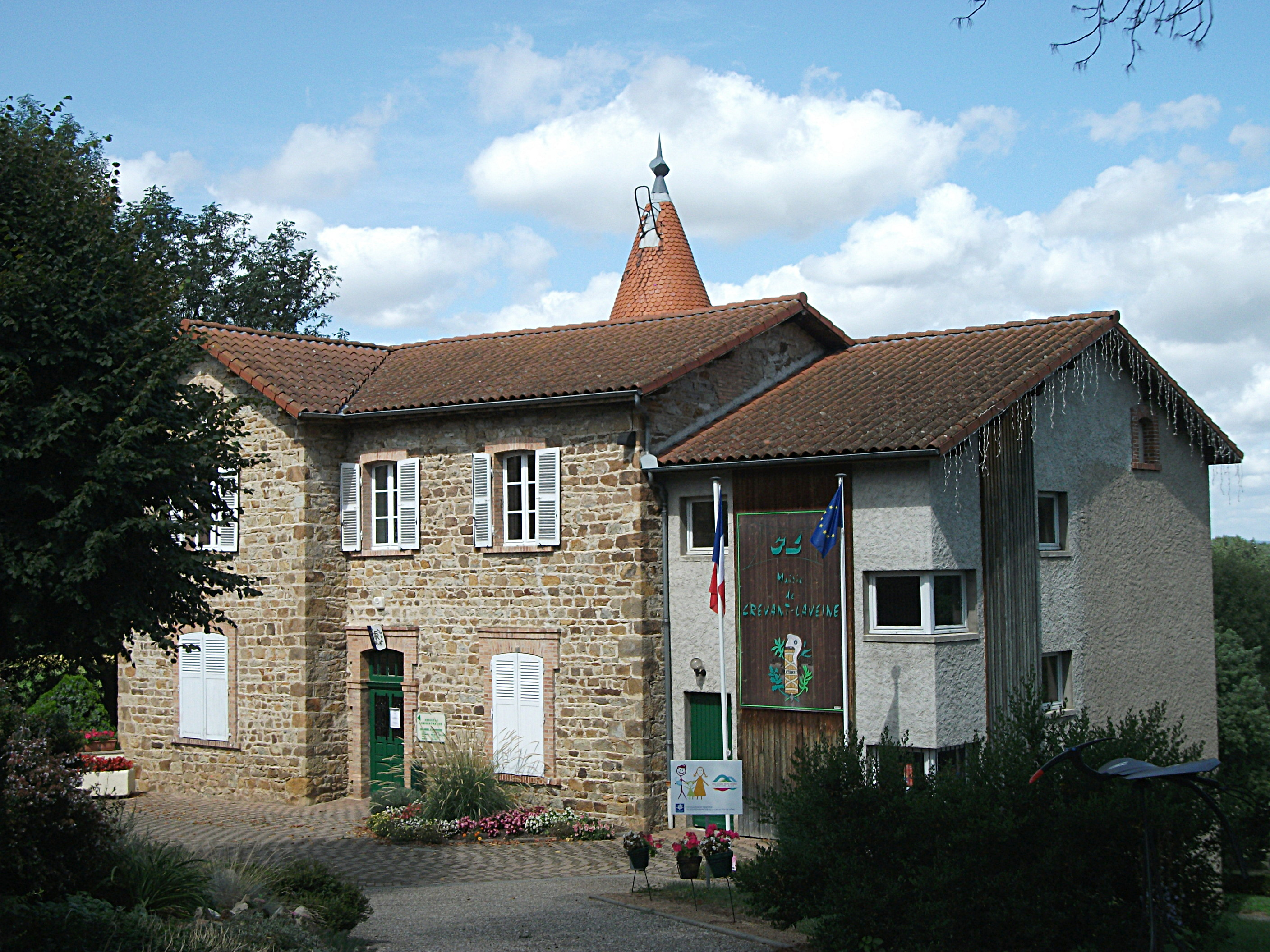 Town hall of Crevant-Laveine, Puy-de-Dôme, France [15137]